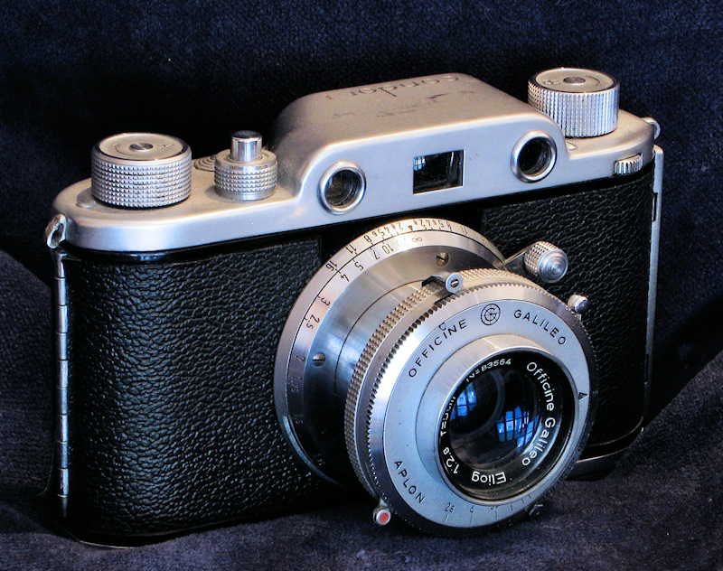 Ferrania-Galileo camera mod. Condor I